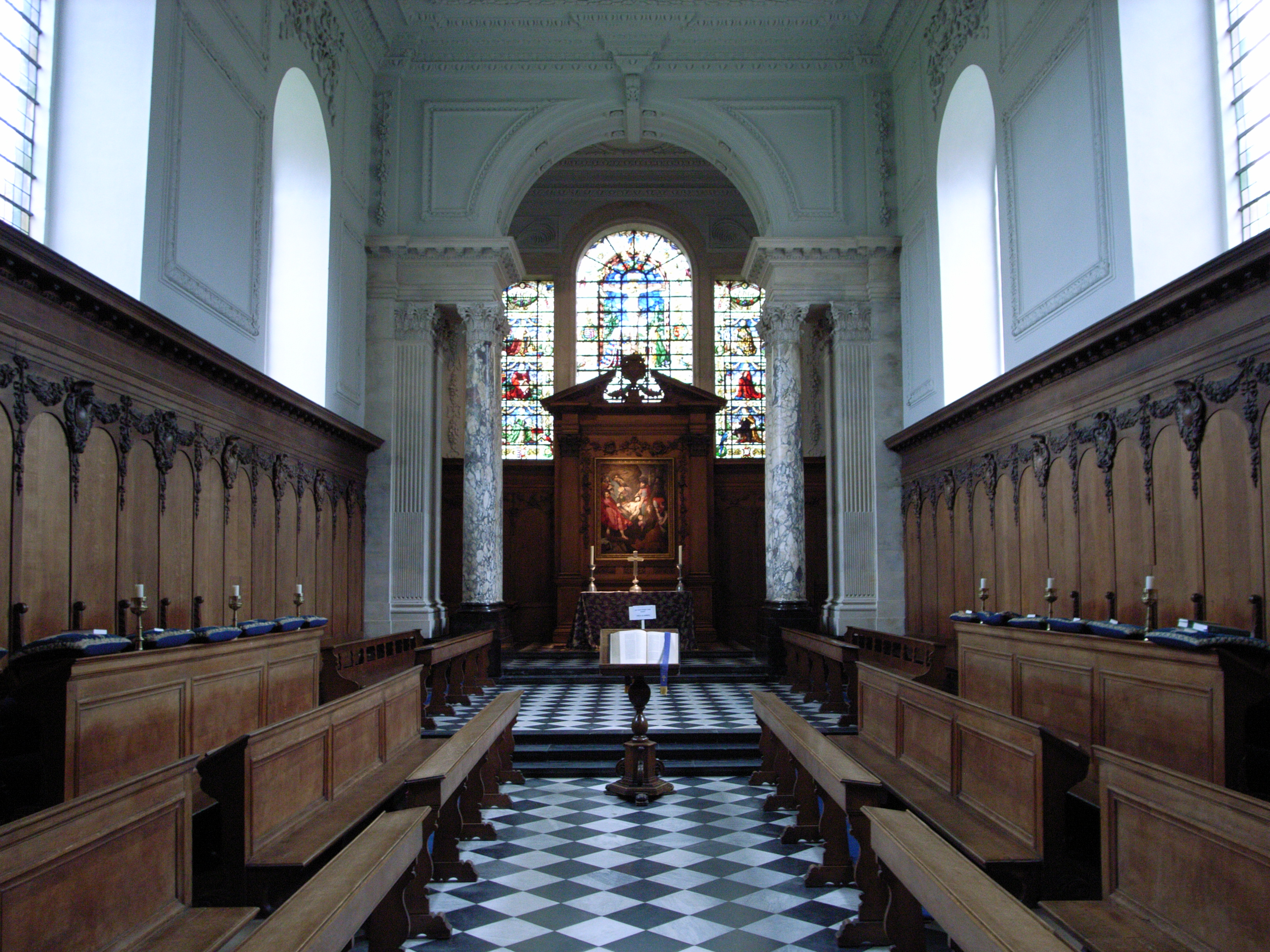 Interior, the Chapel, Pembroke College Cambridge designed in 1663 by Christopher Wren